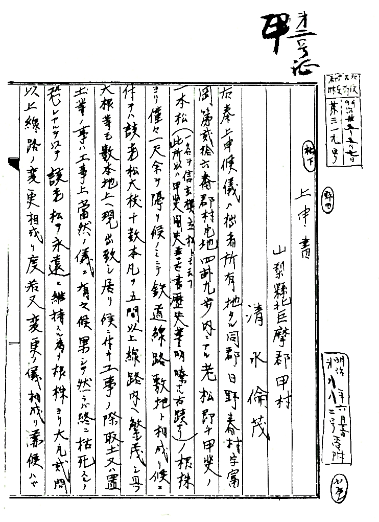 Shingen-ko Hatakake-matsu pine tree Petition to avoid root Siding Installers. In 1902